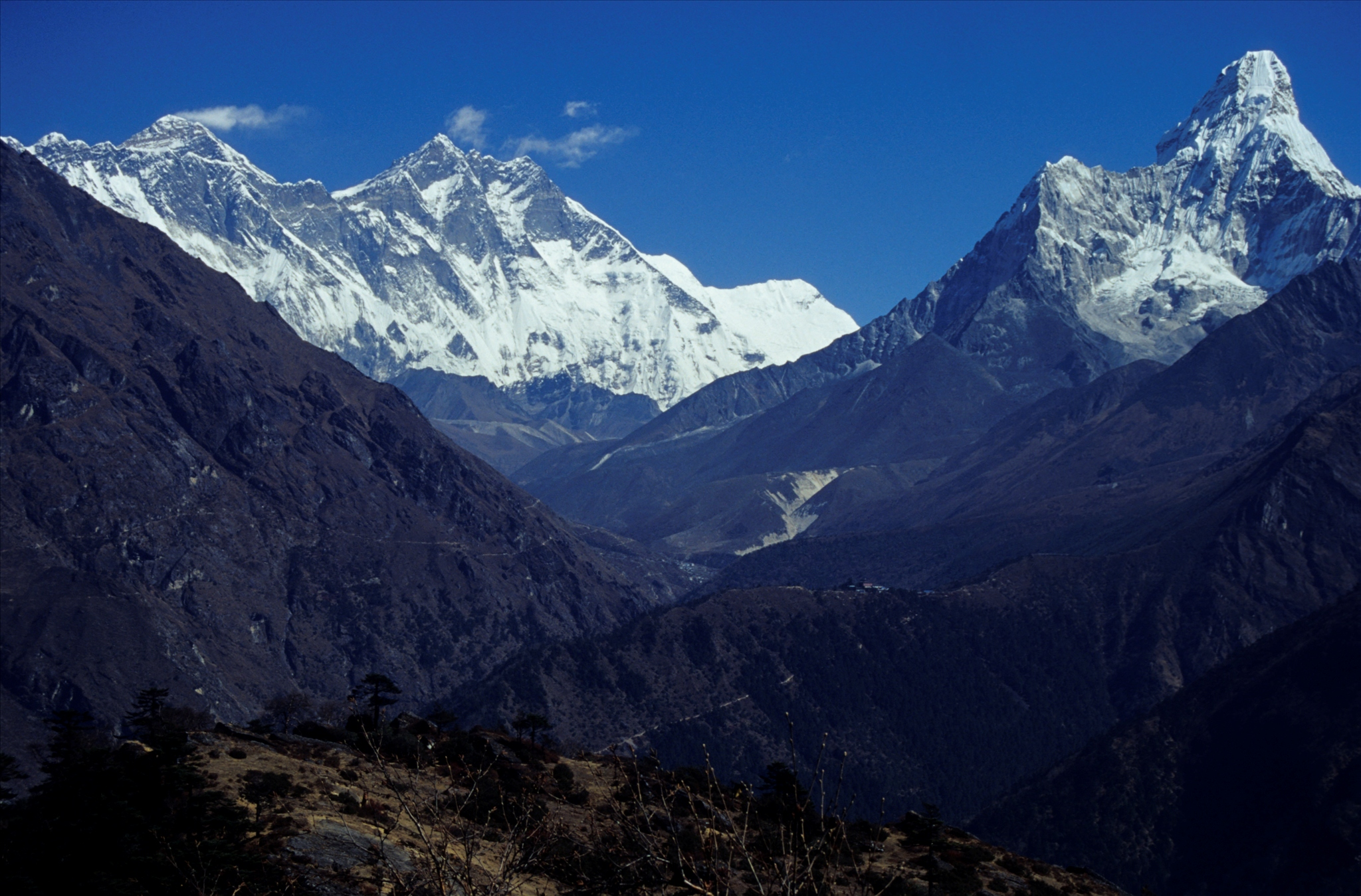 Nepal 2001. Mount Everest is the peak with the clouds to the left. Ama Dablam is the peak to the far right.